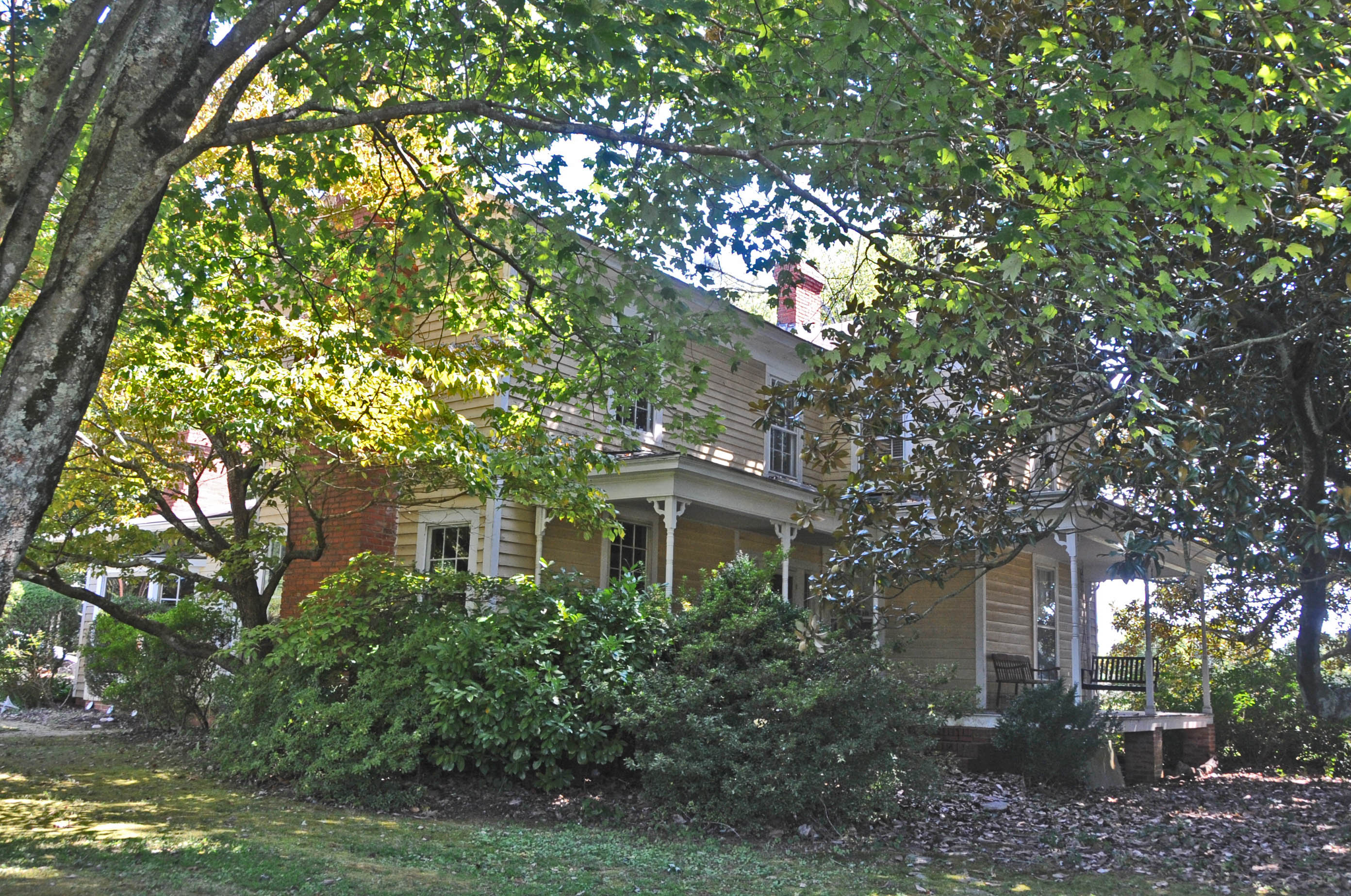 ALSO KNOWN AS HOGAN'S MAGNOLIA VIEW FARM; SETTLED IN 1771